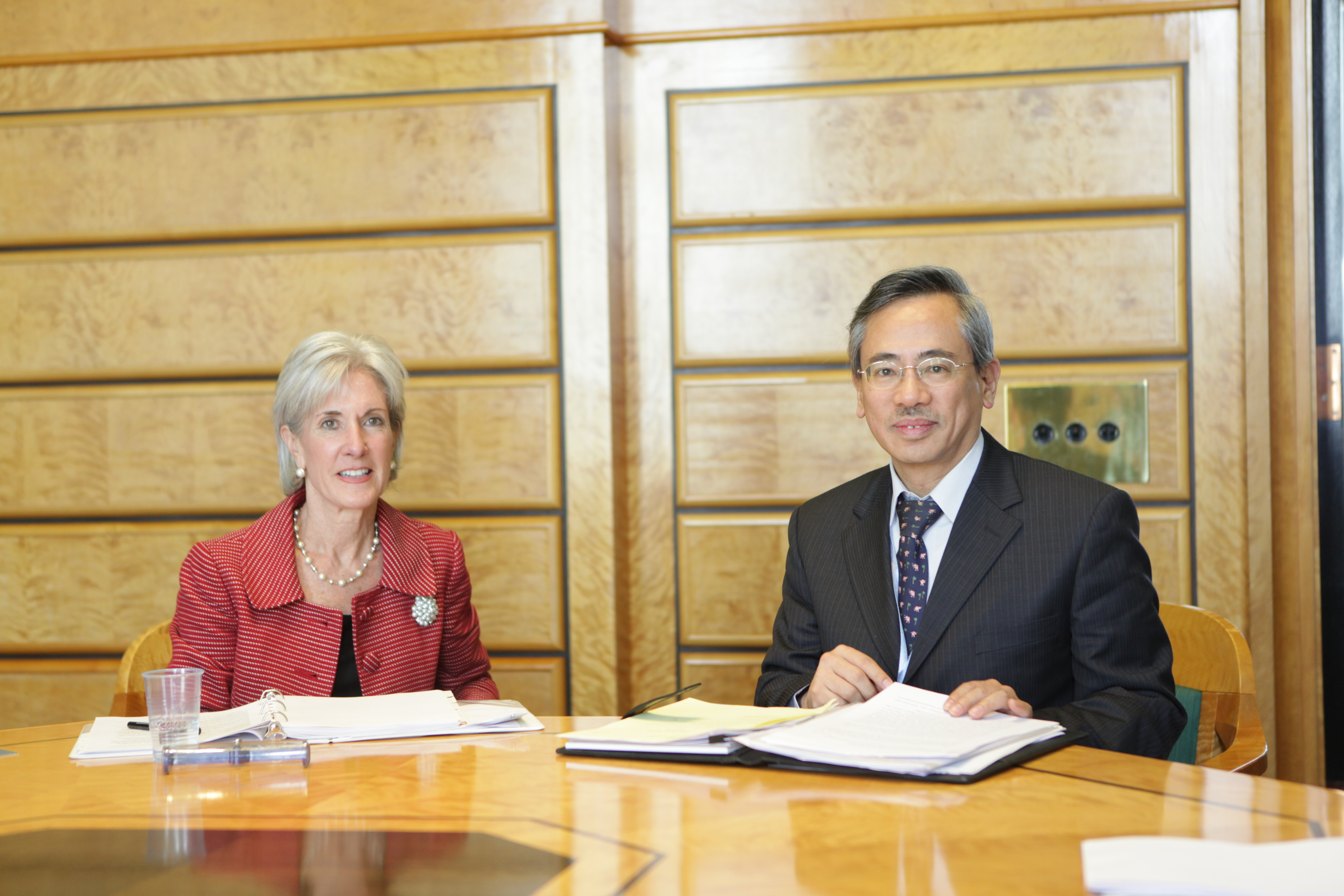 Public health officials from almost 200 nations are meeting in Geneva May 16-24, trying to devise strategies to address the many health problems that shorten life and diminish its quality for millions of people. U.S. Secretary of Health and Human Services Kathleen Sebelius is leading the U.S. delegation of about 25 to the World Health Assembly, which is the annual gathering for member states of the World Health Organization (WHO). A major focus of the meeting will be WHO's first Global Status Report on Noncommunicable Diseases which found that diseases such as cancer, cardiovascular disease, respiratory disease and diabetes cause the greatest number of deaths each year – 63 percent of all deaths worldwide in 2008. U.S. Mission Photo by Eric Bridiers